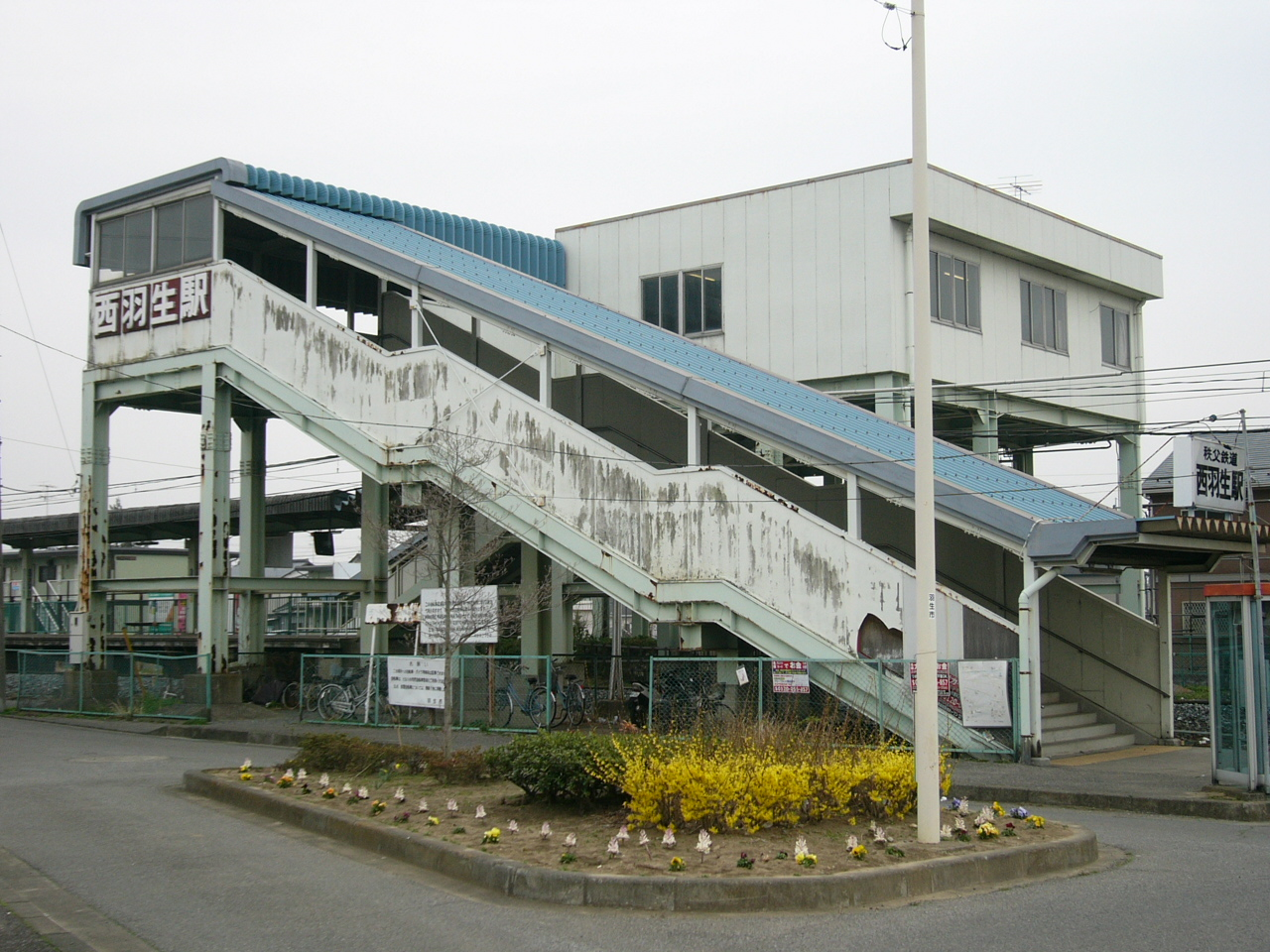 Nishi-Hanyu Station (North Entrance)